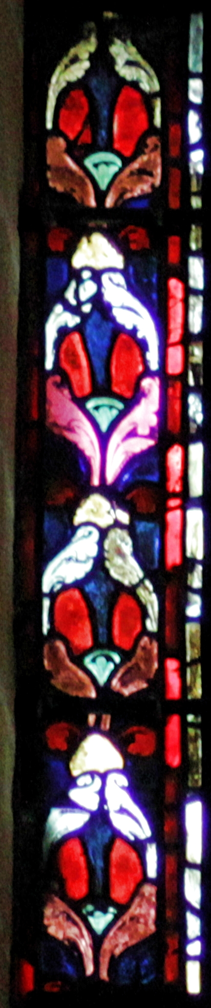 Stained window in Chartres cathedral - bay 14 - Vie de Saint Nicolas. Fragment of File:Chartres 14 -color ajusted.jpg.